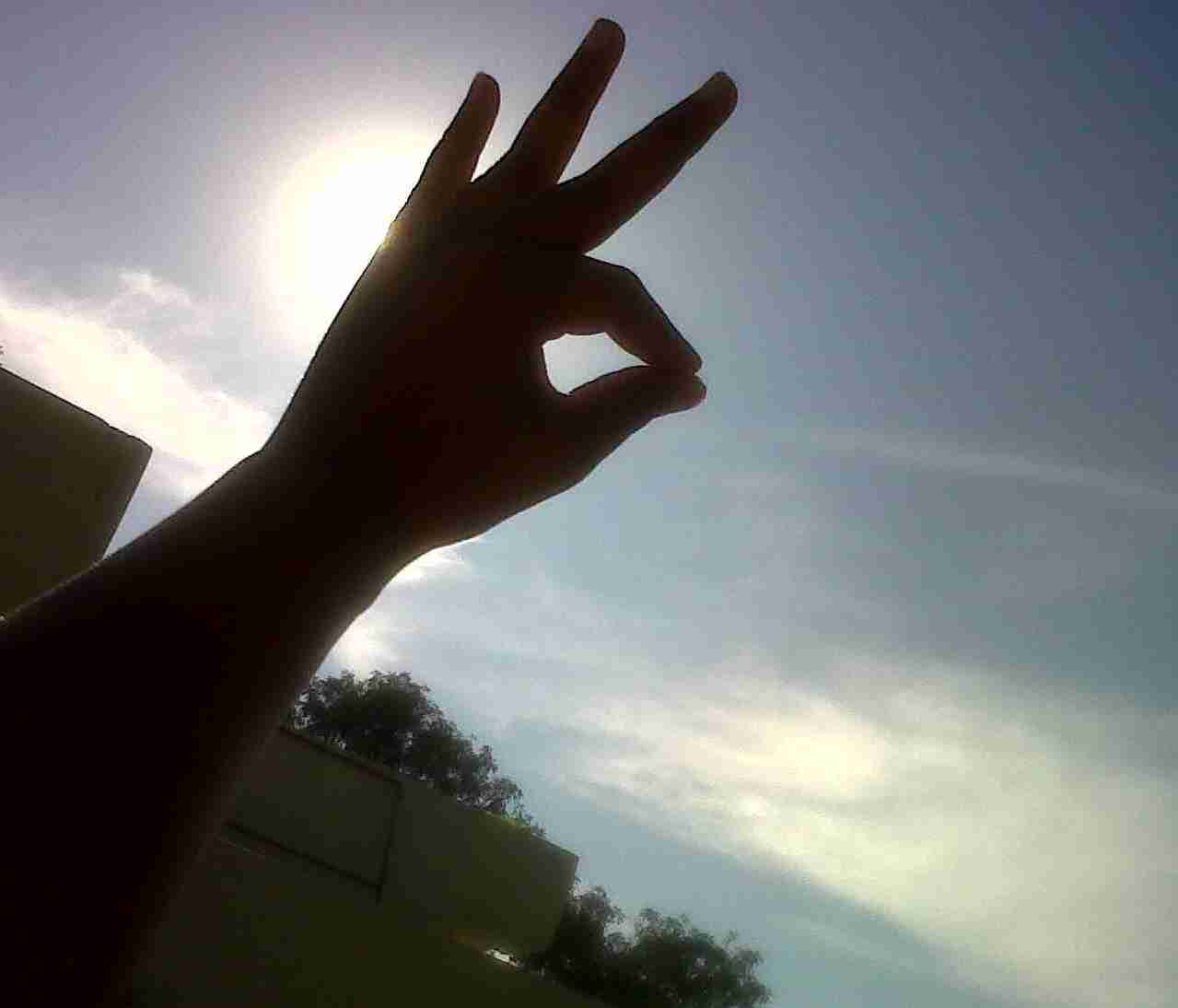 arm of a person performing a mudra of yogasana.